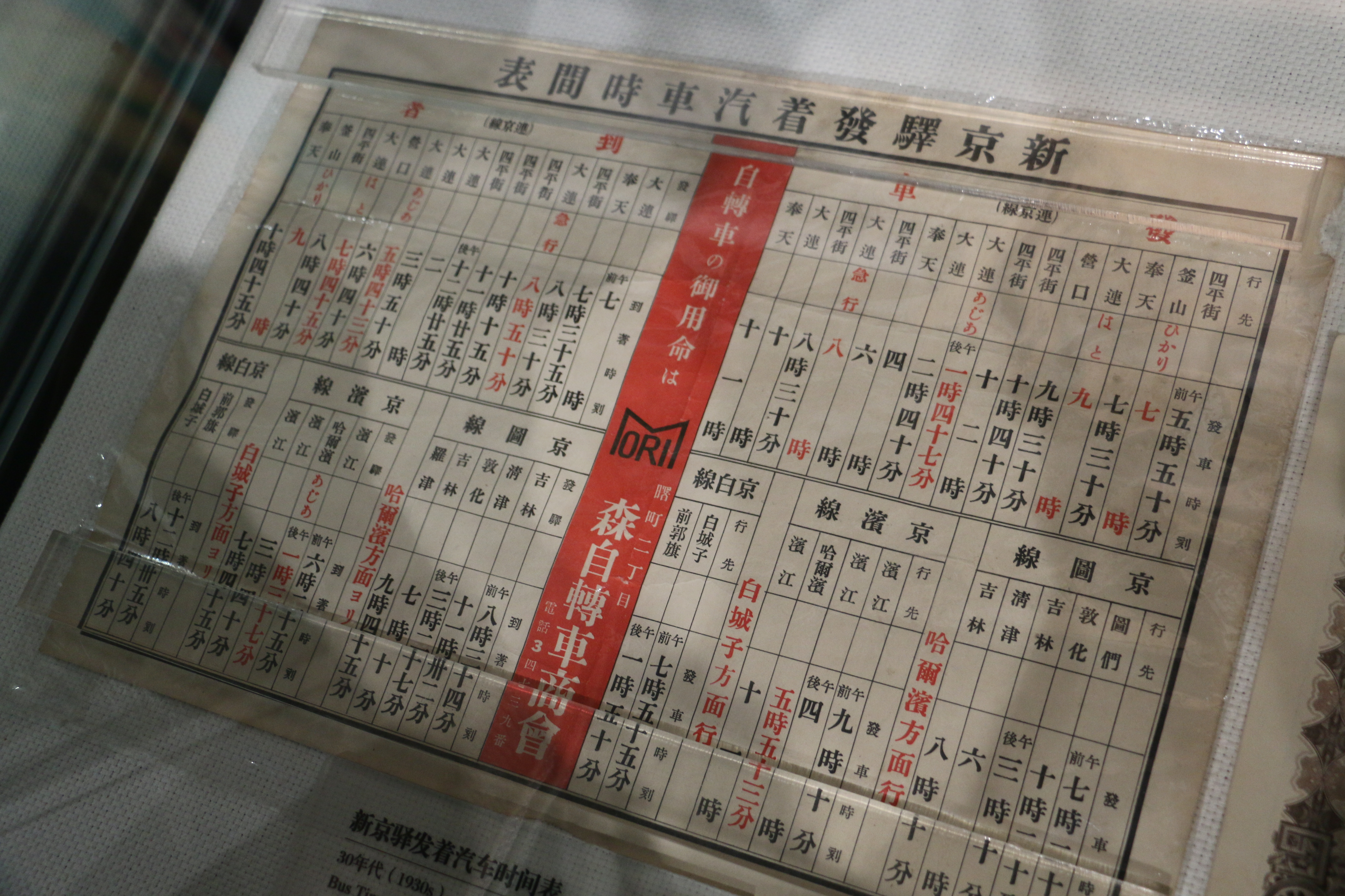 SMR Xinjing Station Train Time Table, kept in China Industrial Museum.